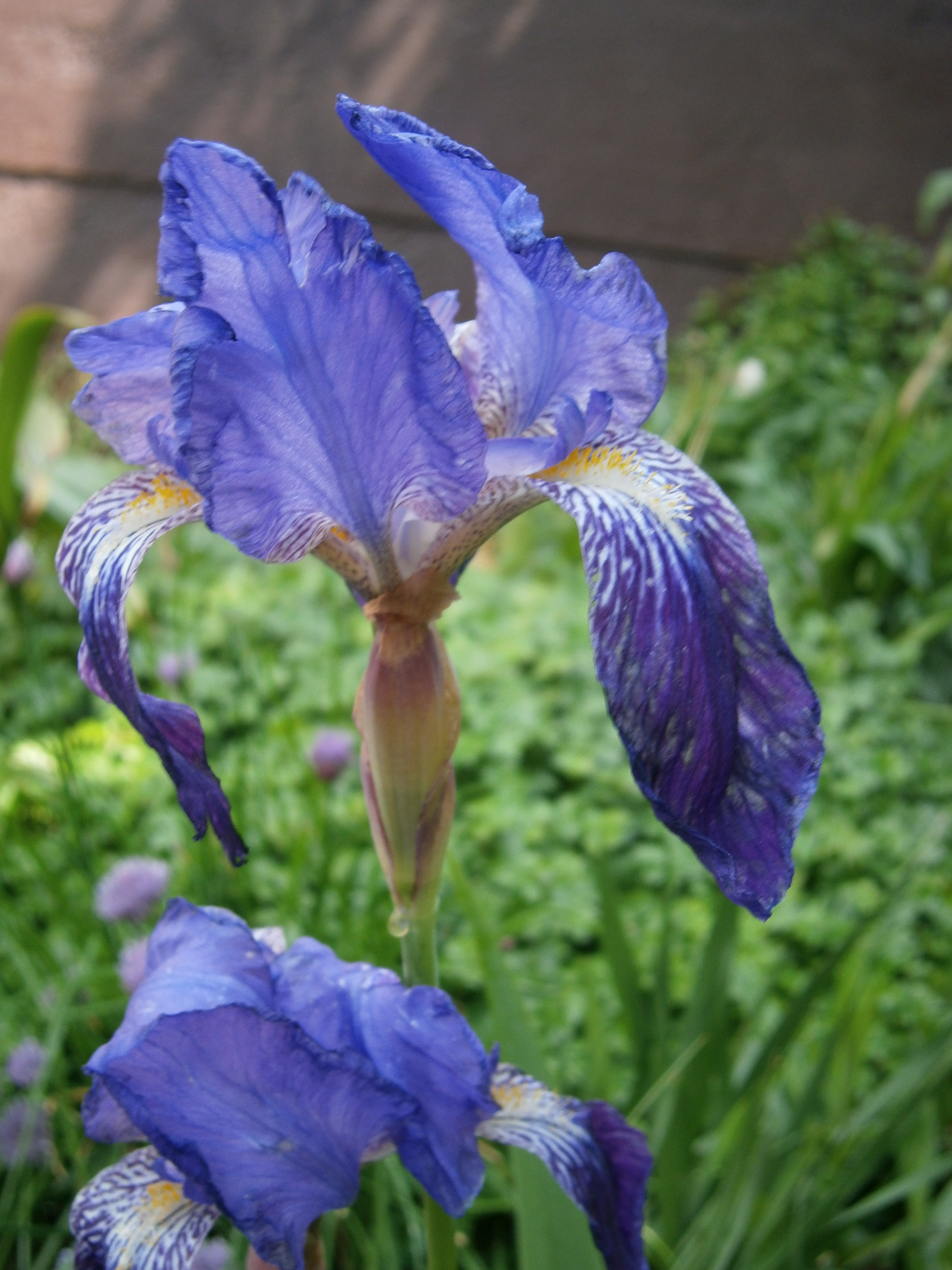 Iris 'Amas' (Syn. Iris ×germanica nothovar. macrantha) - old form of Iris ×germanica from a farmer's garden in France